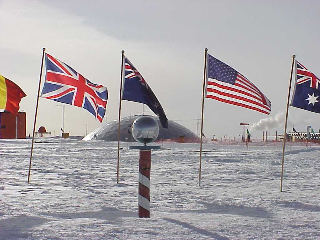 The ceremonial marker at the South Pole is surrounded by flags of the original signatory nations of the Antarctic Treaty. The original signing nations were: Argentina, Australia, Belgium, Chile, the French Republic, Japan, New Zealand, Norway, the Union of South Africa, the Union of Soviet Socialist Republics, the United Kingdom of Great Britain and Northern Ireland, and the United States of America. The treaty was signed on 1 December 1959 in Washington, D.C.